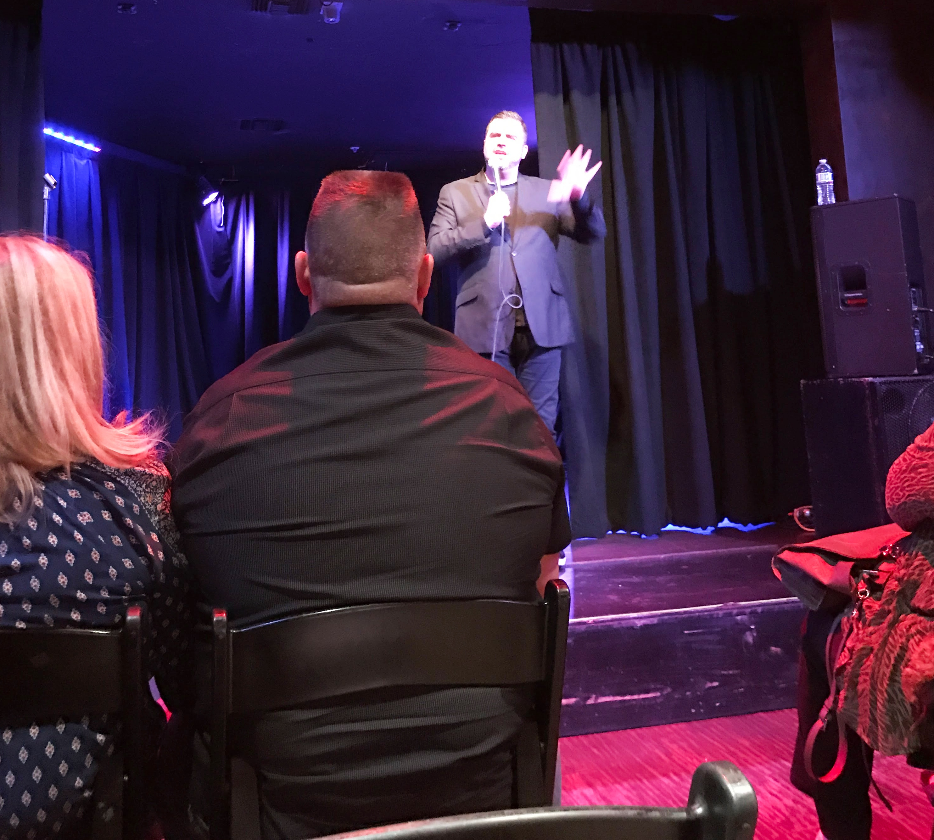 Thomas John on stage Hollywood March 2017